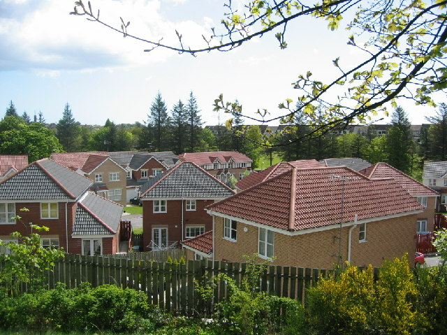 Modern Housing, Woodend. Modern estate built to the east of Woodend Hospital. Unusually for Aberdeen the houses are brick faced.